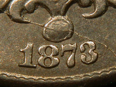 Detail from 1873 Shield nickel, "Closed 3" or "Close 3" variety